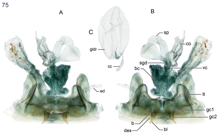 Asklepia demiti sp. n. Digital Photo-illustration, female genitalia based on specimen ADP132483 from Rio Demiti, Brazil. A Dorsal aspect. Legend, bc, bursa copulatrix; co common oviduct; sg spermathecal gland; sgd spermathecal gland duct; sp spermatheca. dorsal aspect; vc villous canal; lt laterotergite; gc1 gonocoxite 1; gc2 gonocoxite 2. B Gonocoxite 2, dorsal aspect: Legend, b base of gonocoxite 2; bl blade of gonocoxite 2; des dorsal ensiform seta. C. Defense gland (gldr); cc accessory gland; ed efferent duct.